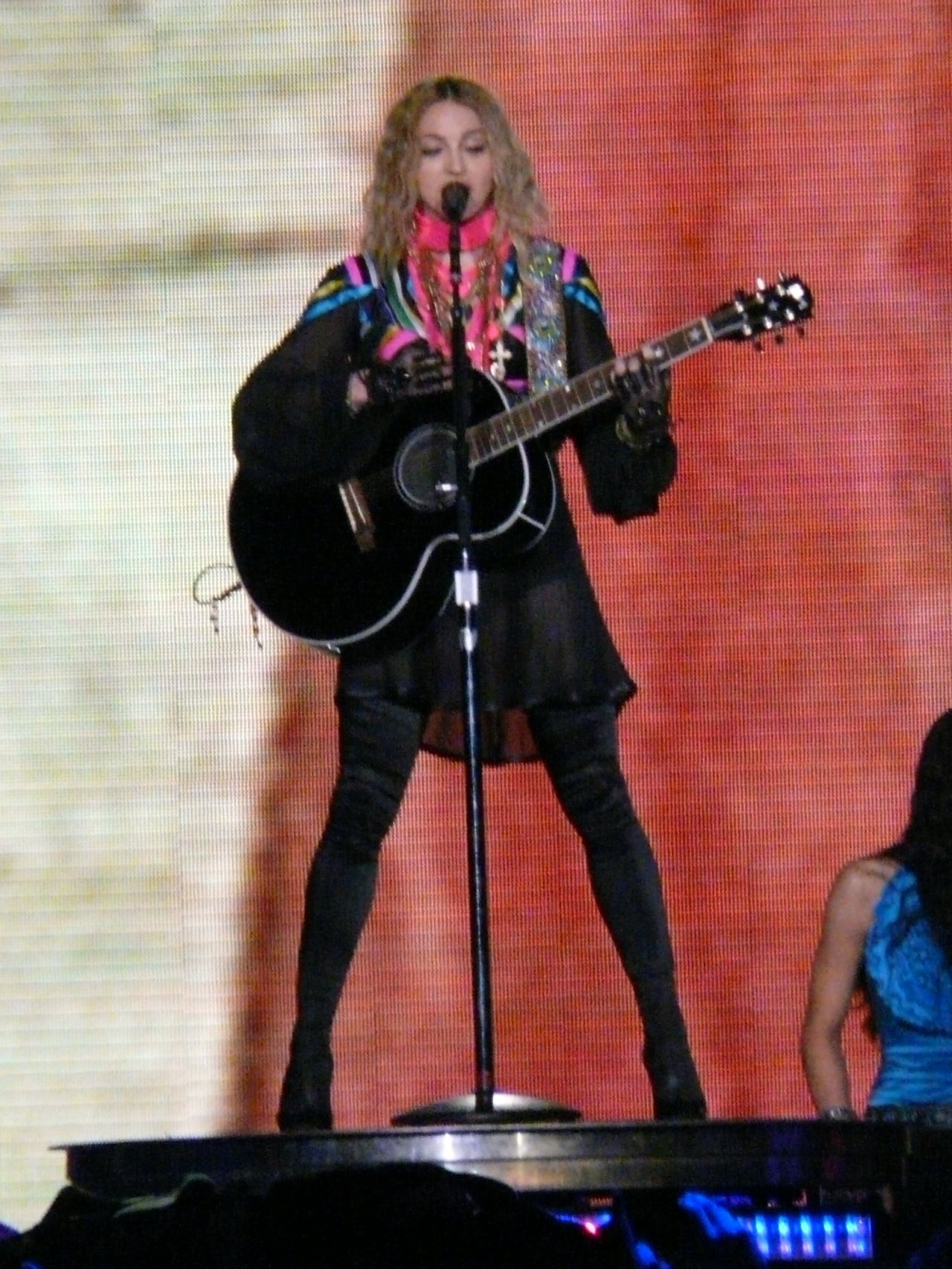 Image taken at the concert